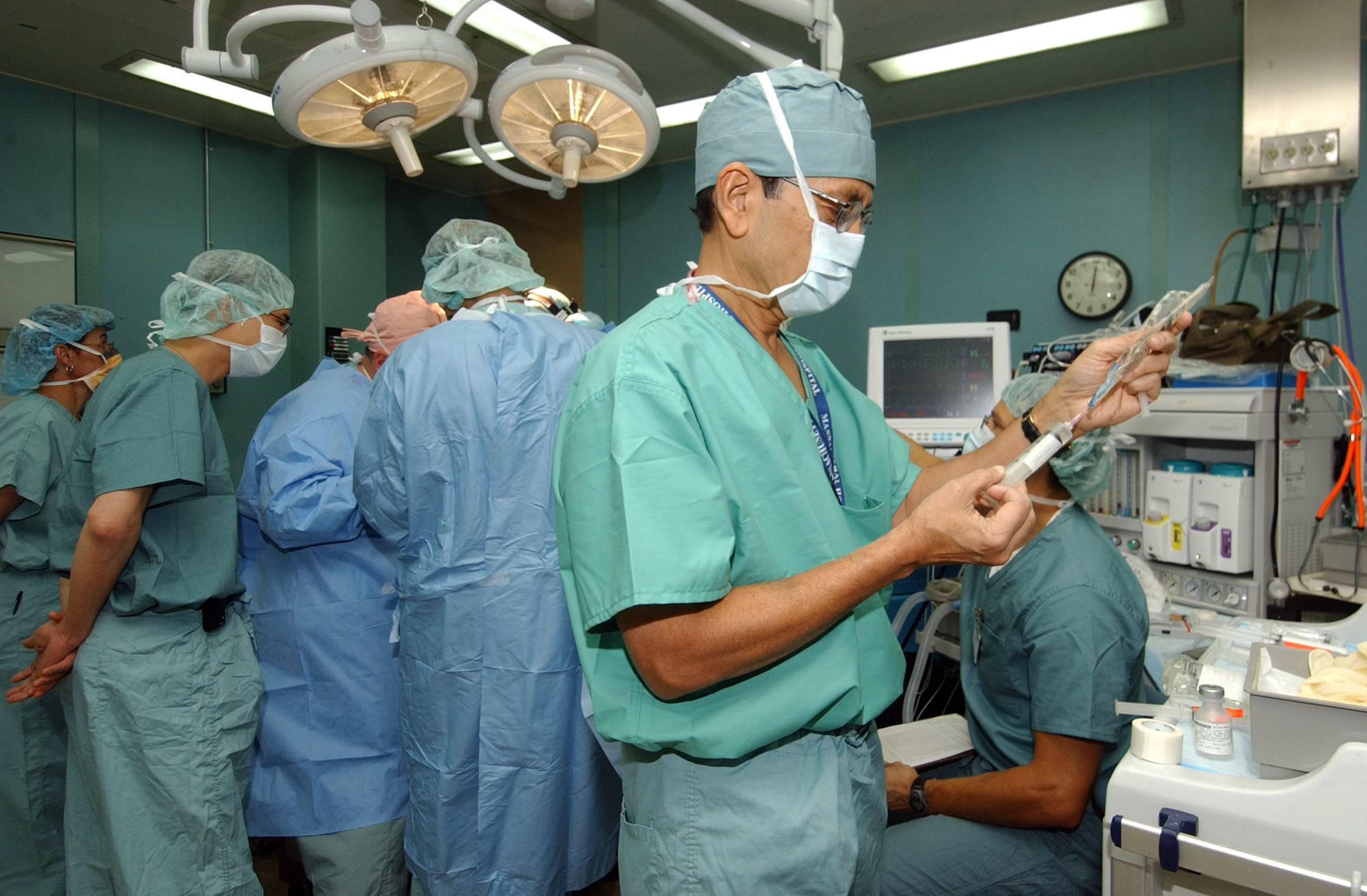 Indian Ocean (Apr. 19, 2005) - Dr. Akshay Dalal an anesthesiologist from the non-governmental organization "Project HOPE", provides medication for an Indonesian patient as the medical team aboard the Military Sealift Command (MSC) hospital ship USNS Mercy (T-AH 19) performs surgery. Mercy has 12 operating rooms and has performed over 100 surgeries since arriving on station in Nias, Indonesia. At the request of the government of Indonesia, the Military Sealift Command (MSC) hospital ship USNS Mercy (T-AH 19) and the MSC combat stores ship USNS Niagara Falls (T-AFS 3) are on station off the coast of Nias, providing assistance as determined appropriate and necessary with earthquake disaster relief efforts and provide medical assistance to those in need. U.S. Navy photo by Photographer's Mate 2nd Class Jeffrey Russell (RELEASED)